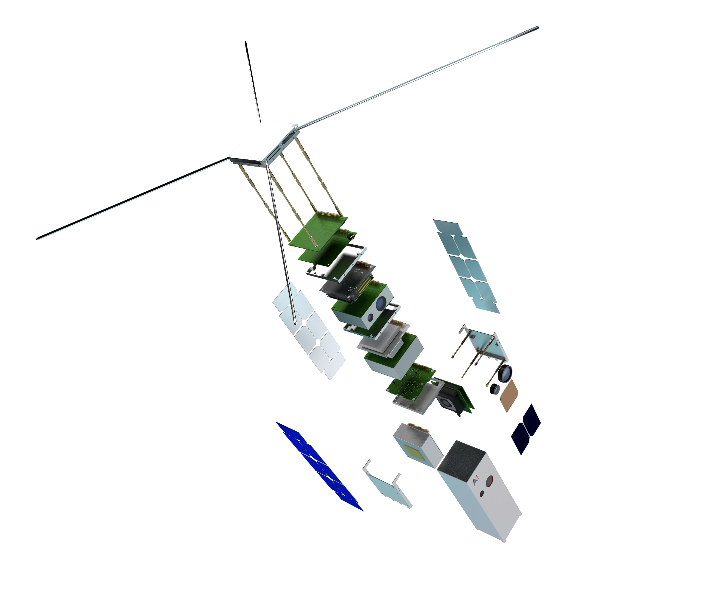 Subsystems of the Aalto-1 satellite